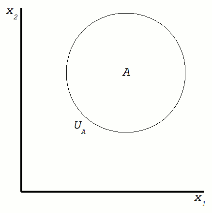 Grafical representation of an utility function of a consumer about two goods.